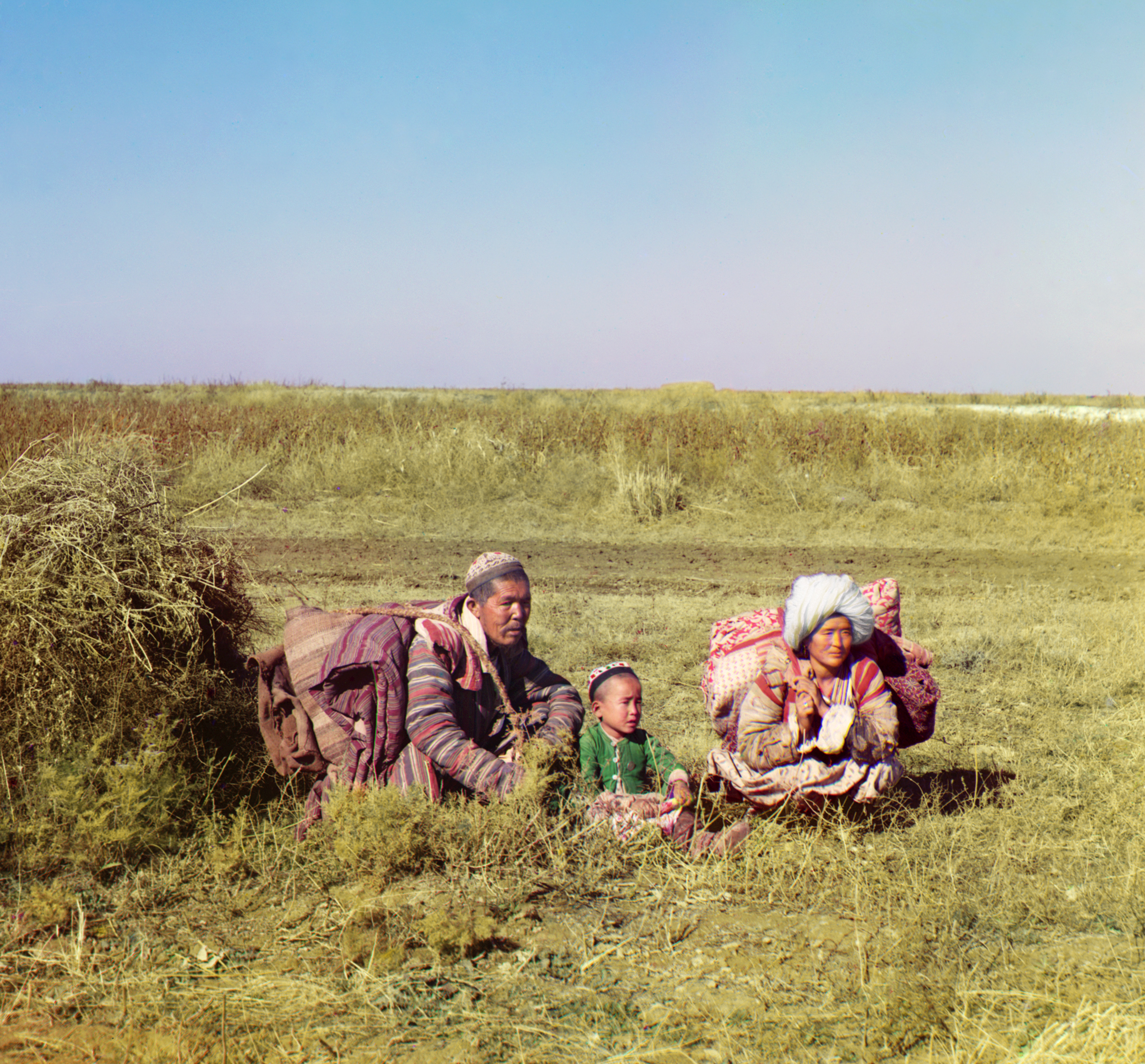 Nomadic Kyrgyz family on the Golodnaya Steppe in Uzbekistan